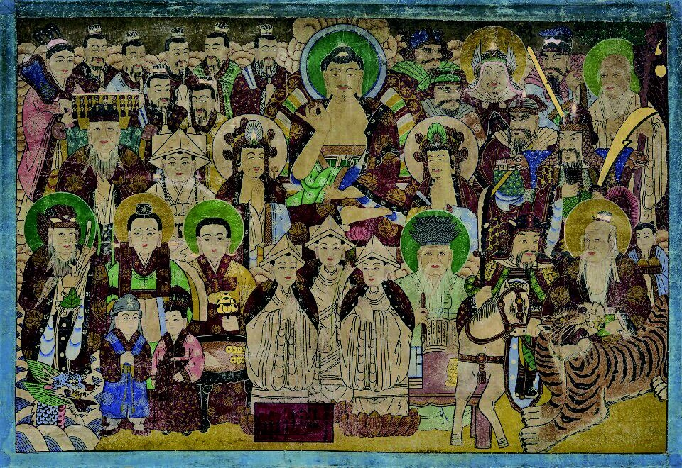 This early nineteenth-century Korean shamanic painting depicts thirty-two deities. The three young figures in center wearing conical hats are the Jeseok triplets, one of the most important figures in Korean mythology. The figure in the center above is probably the Buddha, while the god with the tiger in bottom right is iconographically a mountain god (sansin). The young boy and girl in bottom left may be dongja and myeongdu spirits, while the figures in armor in right above are probably the spirits of generals (janggun-sin such as the fourteenth-century Choe Yeong, the fifteenth-century Nam I, or the seventeenth-century Im Gyeong-eop.